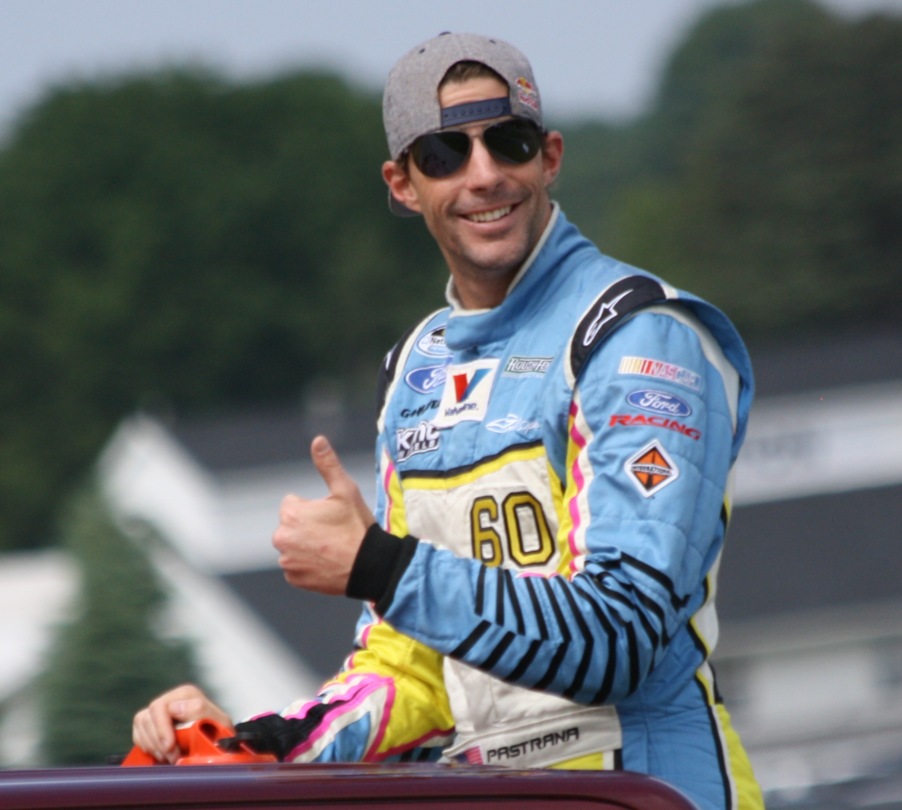 NASCAR driver Travis Pastrana at the 2013 Johnsonville Sausage 200 Nationwide Series race at Road America.